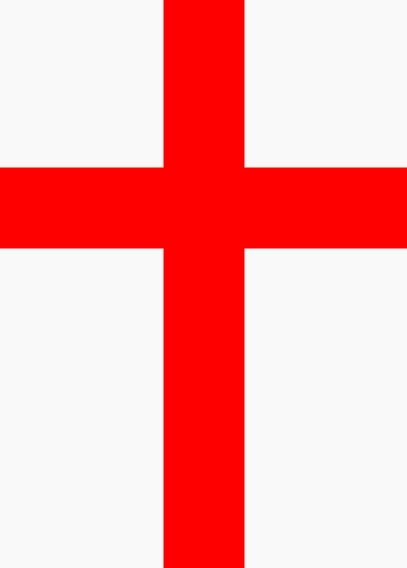 Christianity